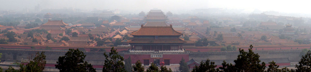 Beijing. Panorama of Forbidden City.